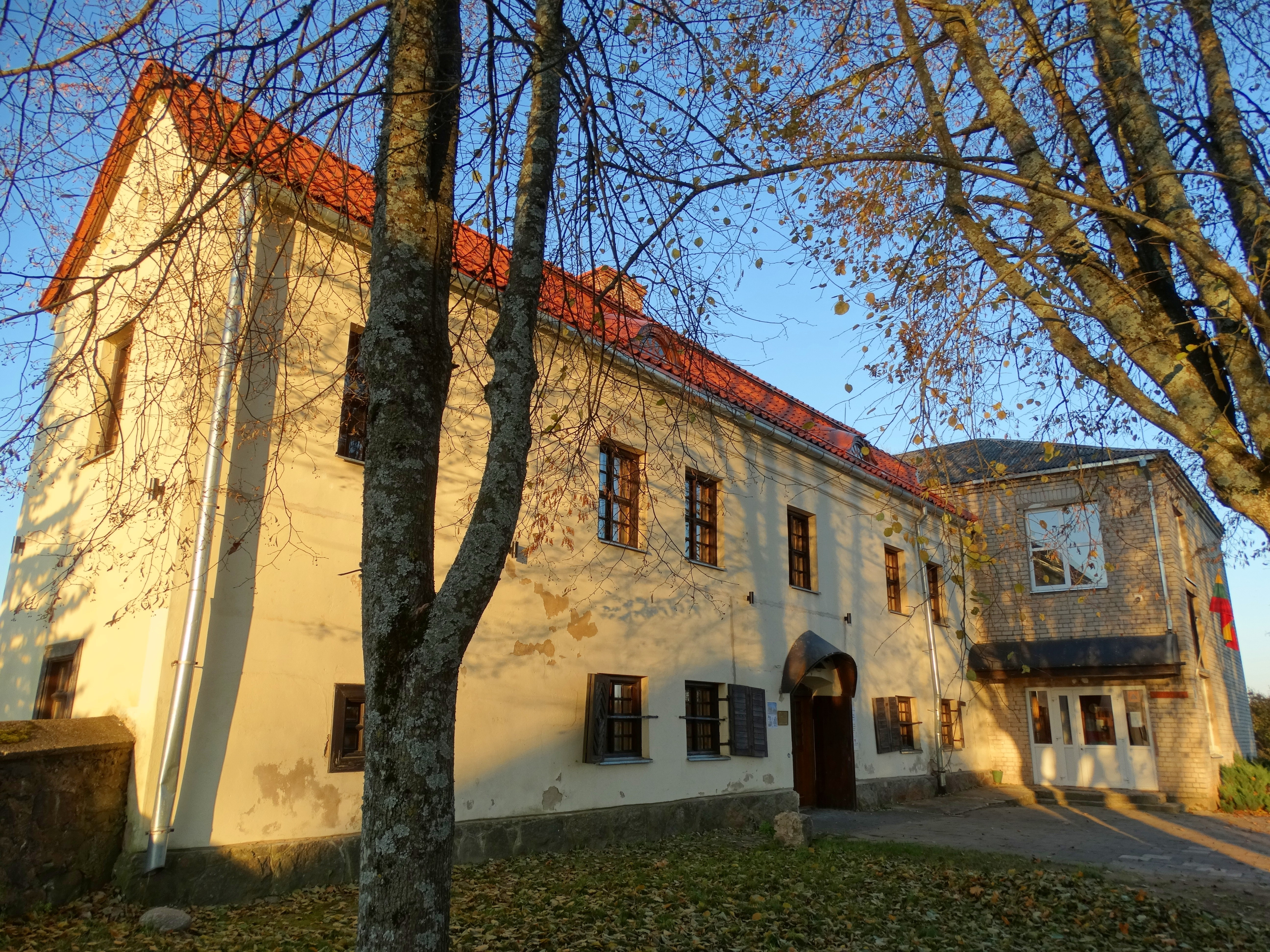 Videniškiai, monastery, Molėtai district, Lithuania